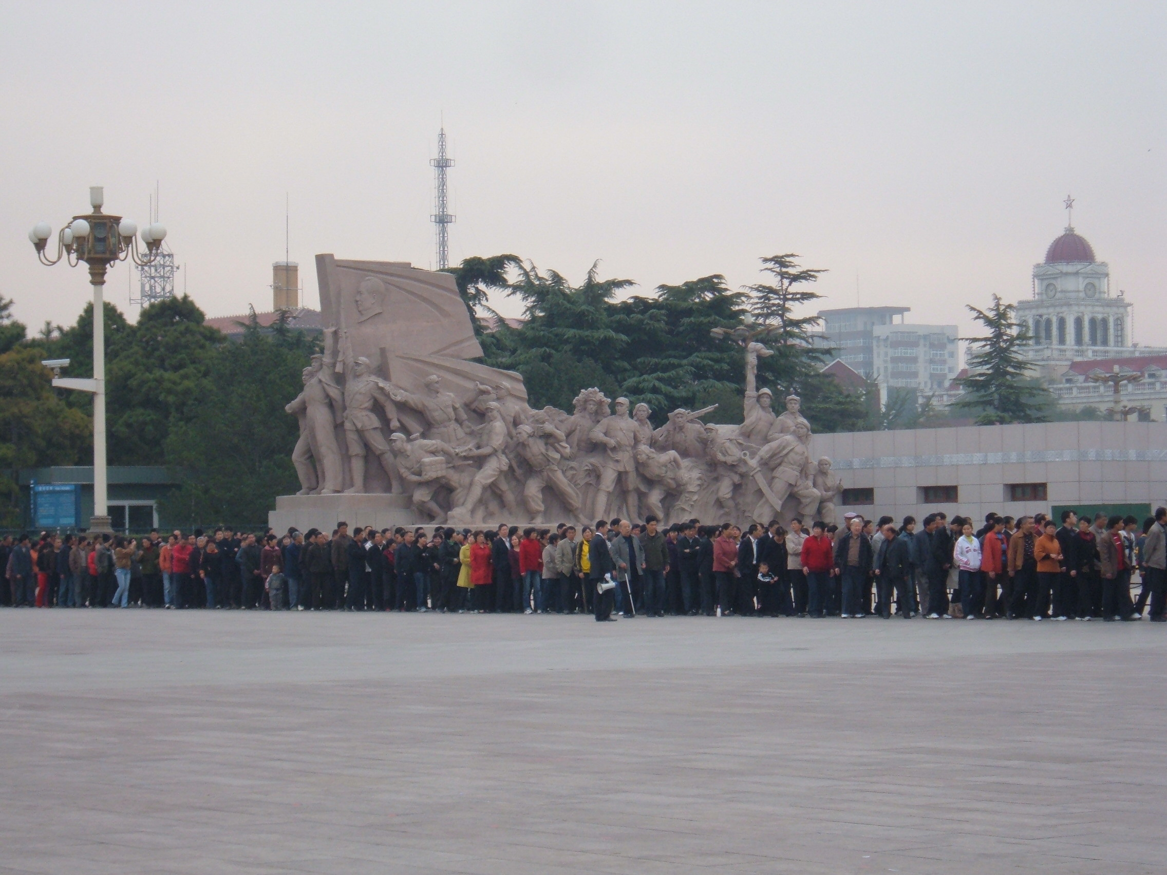 Eastern sculpture near the entrance to the Mausoleum of Mao Zedong and the queue to enter the mausoleum from that side in Tiananmen Square, Beijing, PRC.